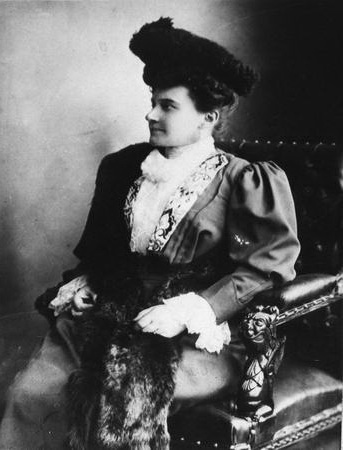 Photograph of the Finnish-Russian composer Alexandra Zheleznova née Alexandrine Armfelt (1866–1933).